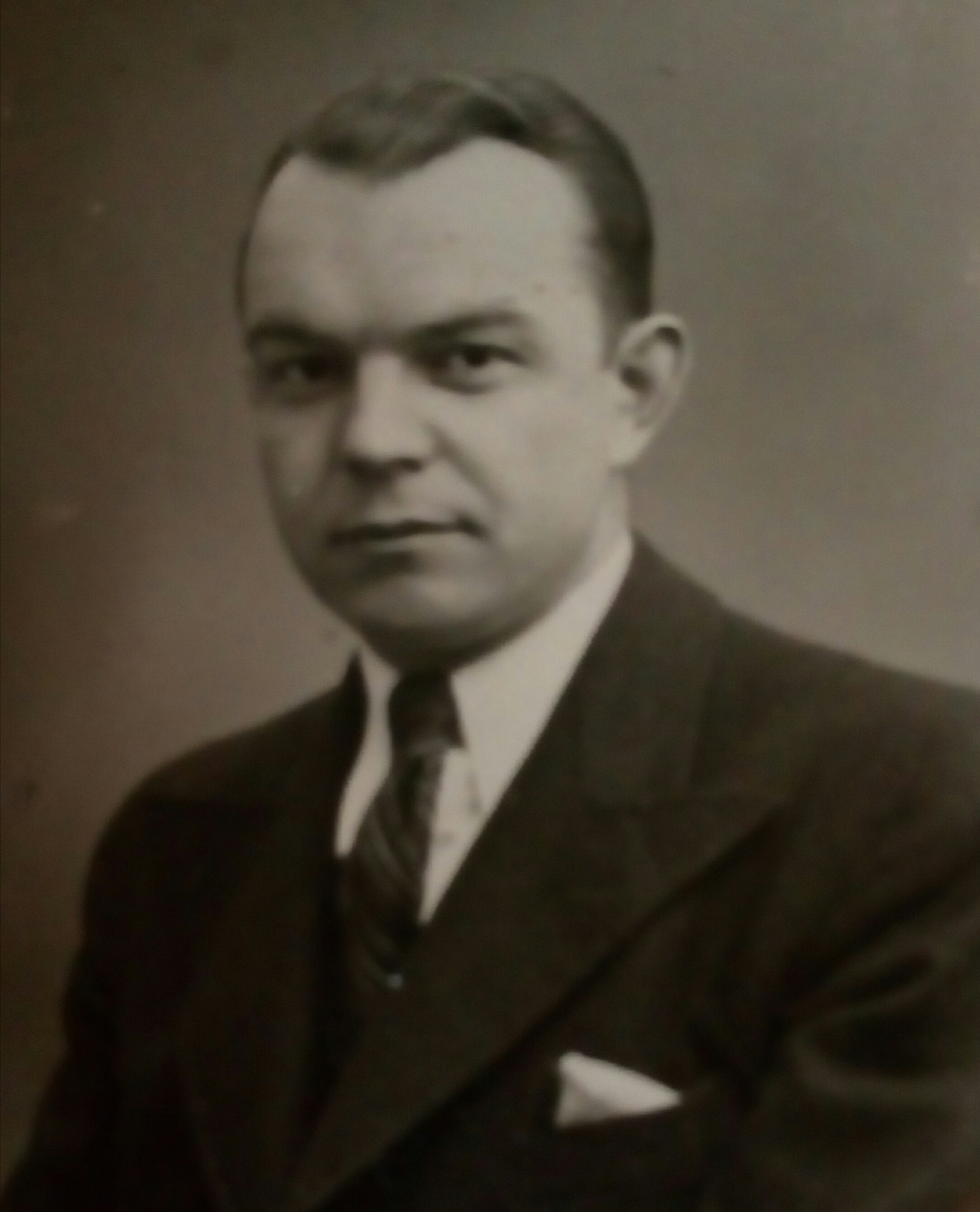 Herbert Capeller at the age of 30.